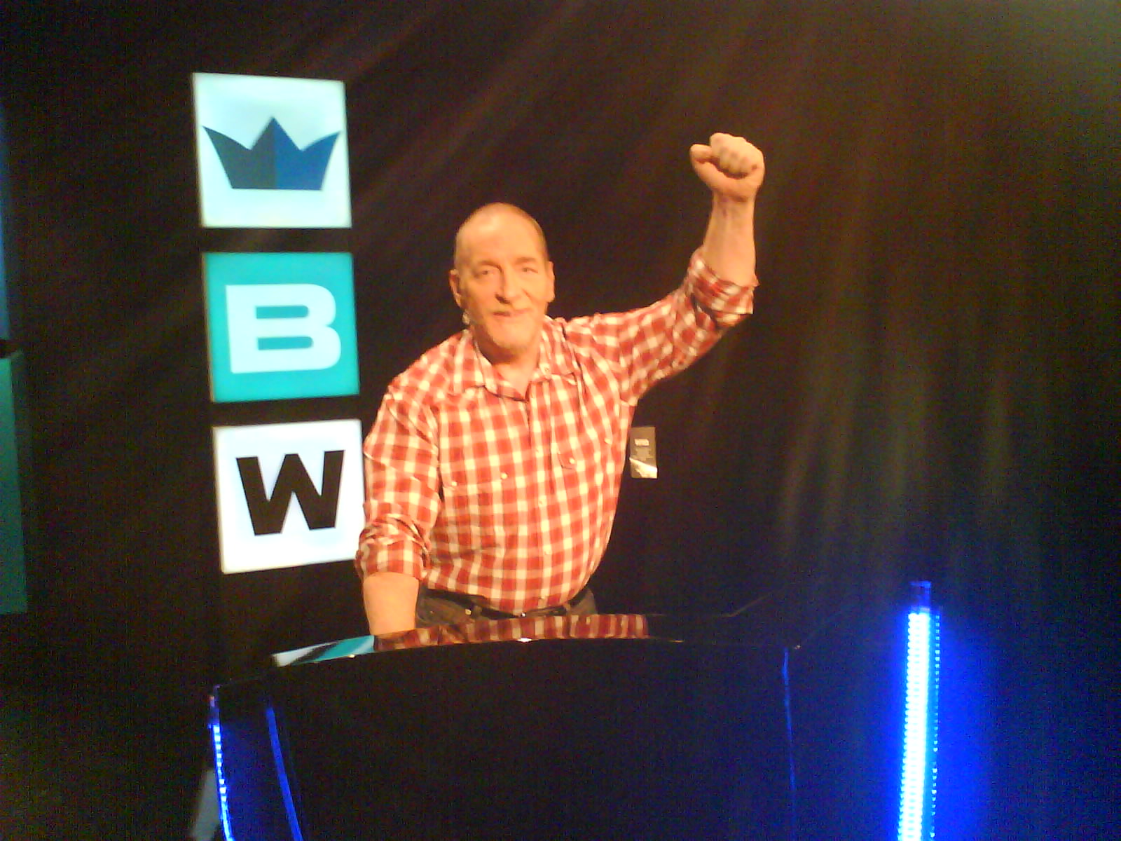 Swedish weight lifter, chef, TV host Lennart "Hoa-Hoa" Dahlgren at the set of the Swedish version of the TV programme "Know it all". Tyngdlyftaren Lennart "Hoa-Hoa" Dahlgren som programledare för TV-frågesporten "Besserwisser", hösten 2007.